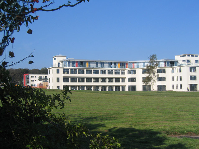 Hayes Point Sully, near to Sully, The Vale of Glamorgan/Bro Morgannwg, Great Britain. Former Sully Hospital now refurbished into luxury apartments overlooking Sully Bay and the Severn Estuary